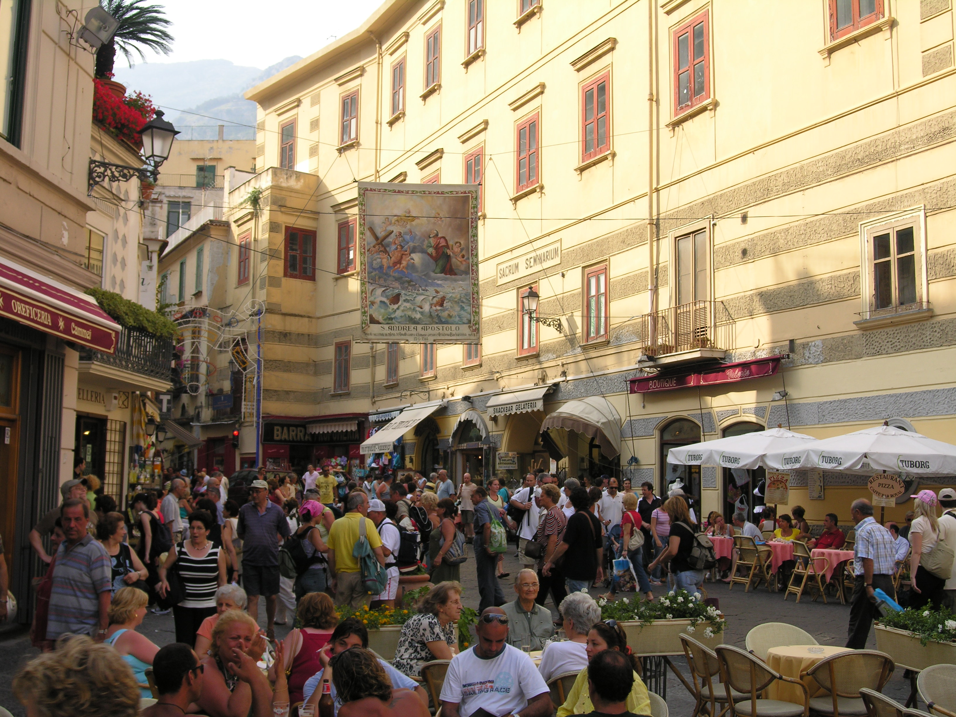 Amalfi, Piazza del Duomo, Italy, view into the mainstreet of Amalfi